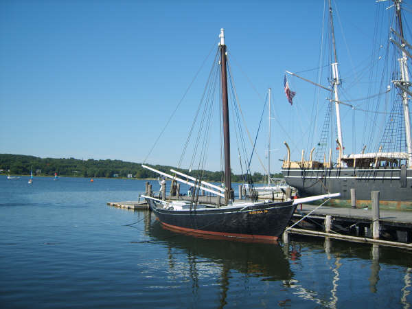 The Regina M. which is a carry away sloop that was built in 1900.